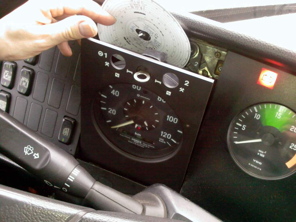 tachograph with tachograph chart in a Mercedes O 303 Coach. Note the teardrop shaped hole as opposed to a round hole.